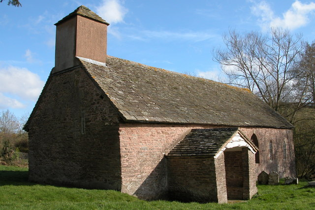 St Michael's church, Michaelchurch. This small church is in the care of The Churches Conservation Trust. The church is thought to have been founded in 1056 by Bishop Herwald of Llandaff, however, nothing remains from this time. Inside Medieval 13th century frescos survive on the walls.